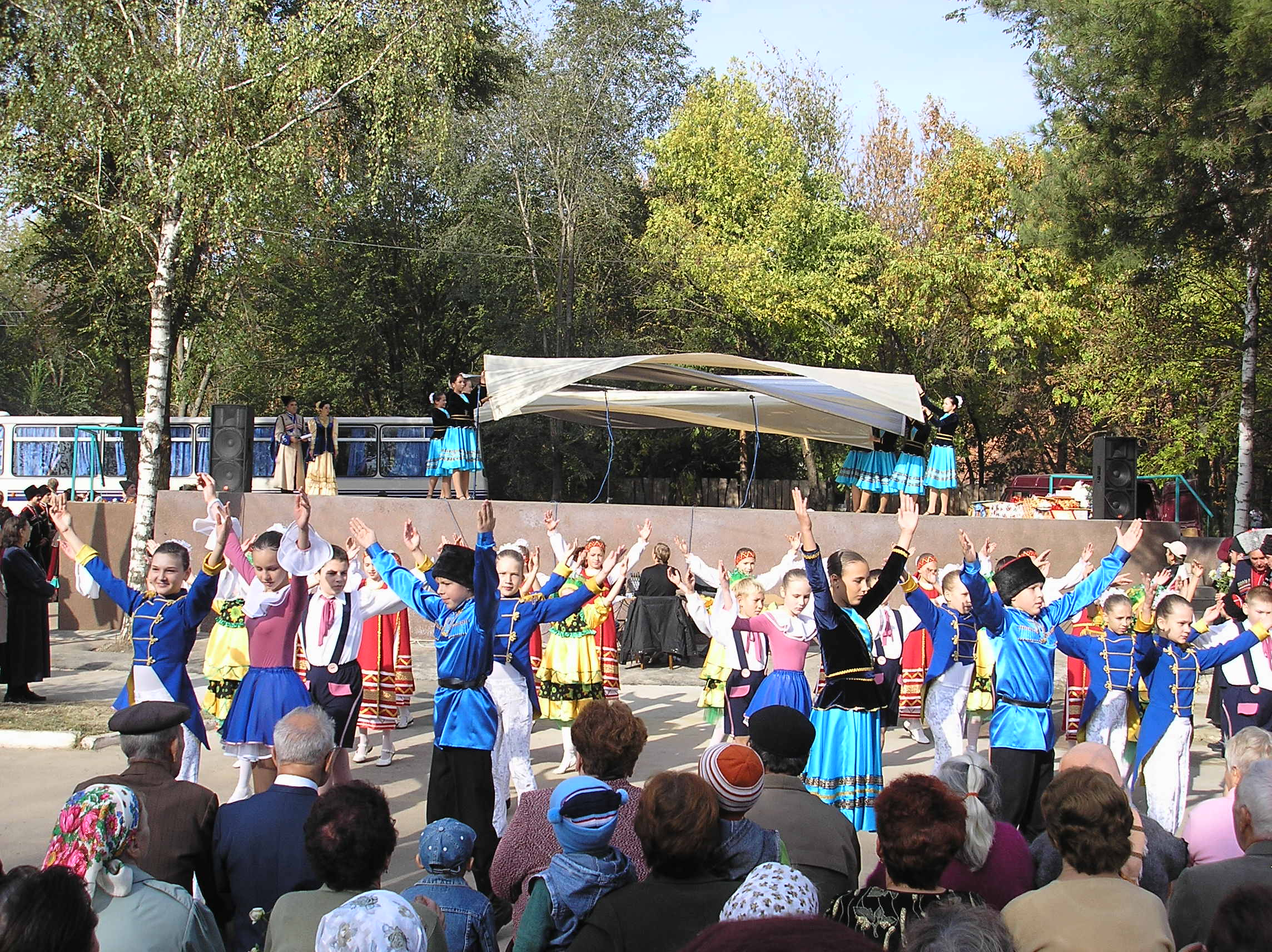 Novotroitskaya. Concert at Village Day